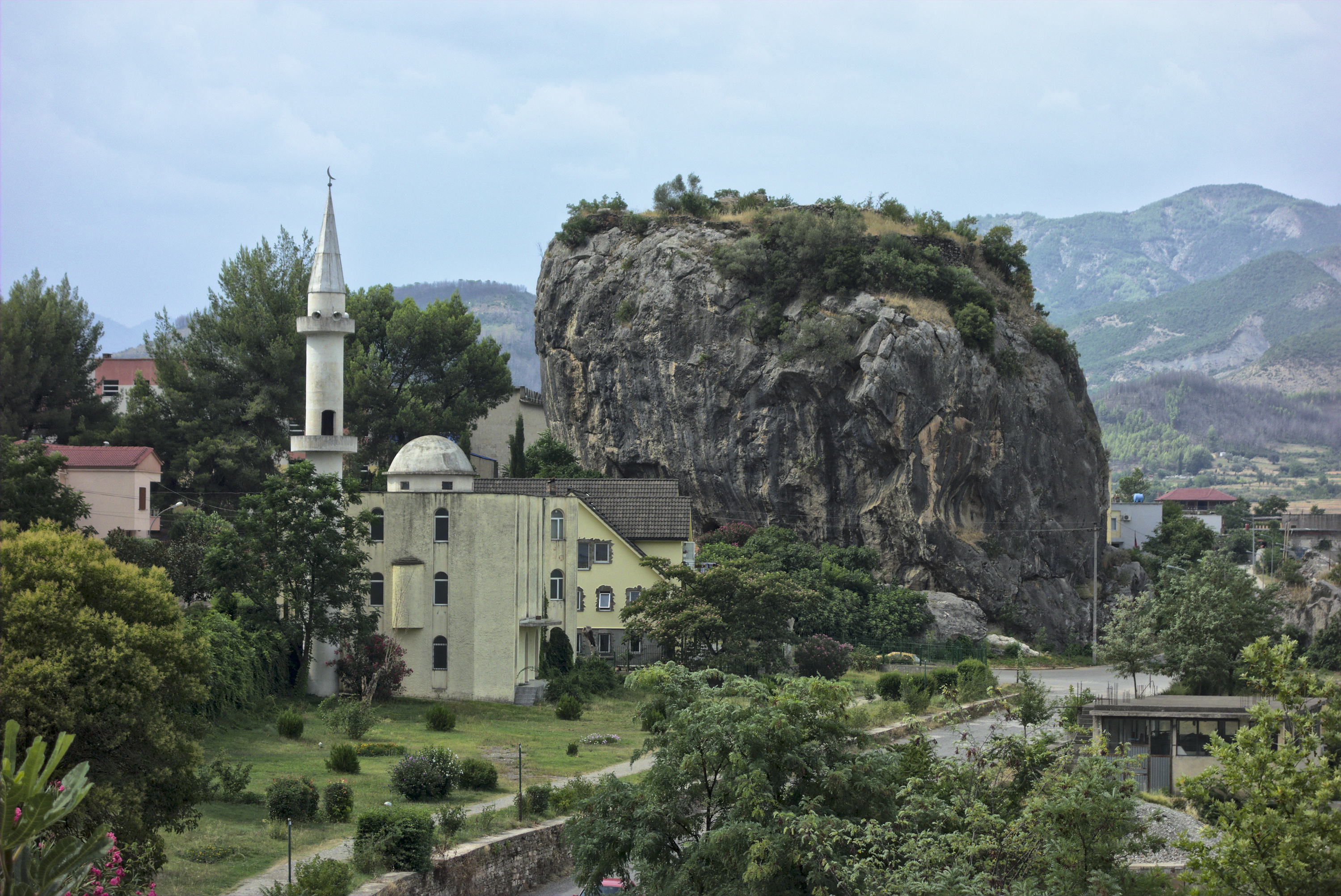 The stone of the city and a mosqueShqip: Gur i Qytetit e lumi Vjosa